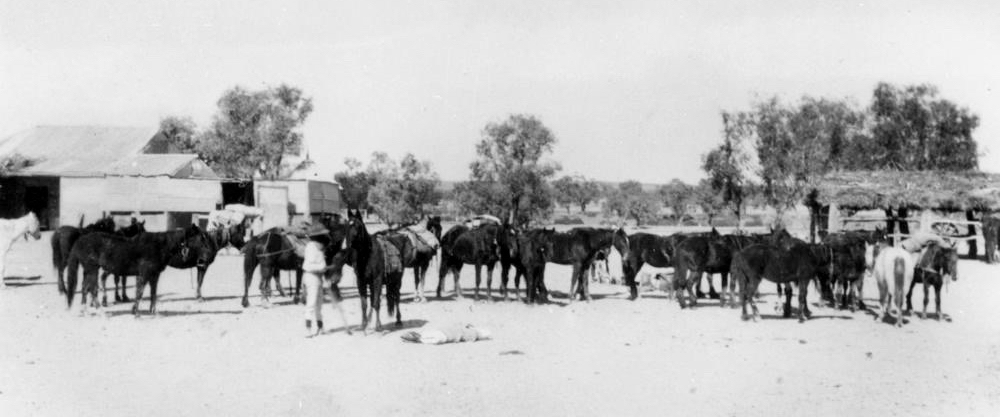 Horses on Innamincka Station, 1927. Innamincka Station is situated near the corner where South Australia, Queensland and Northern Territory intersect.